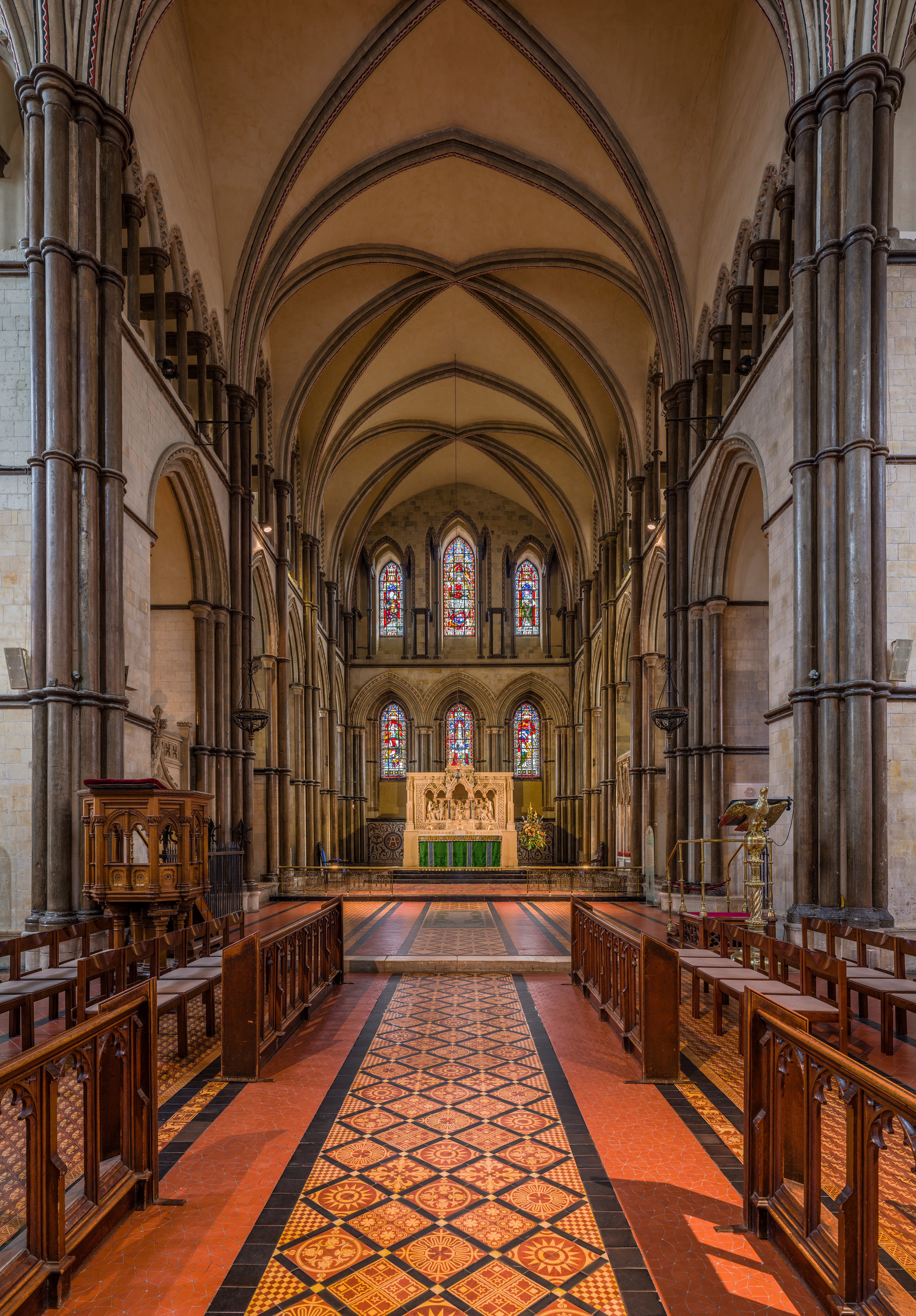 The presbytery of Rochester Cathedral in Kent, England.